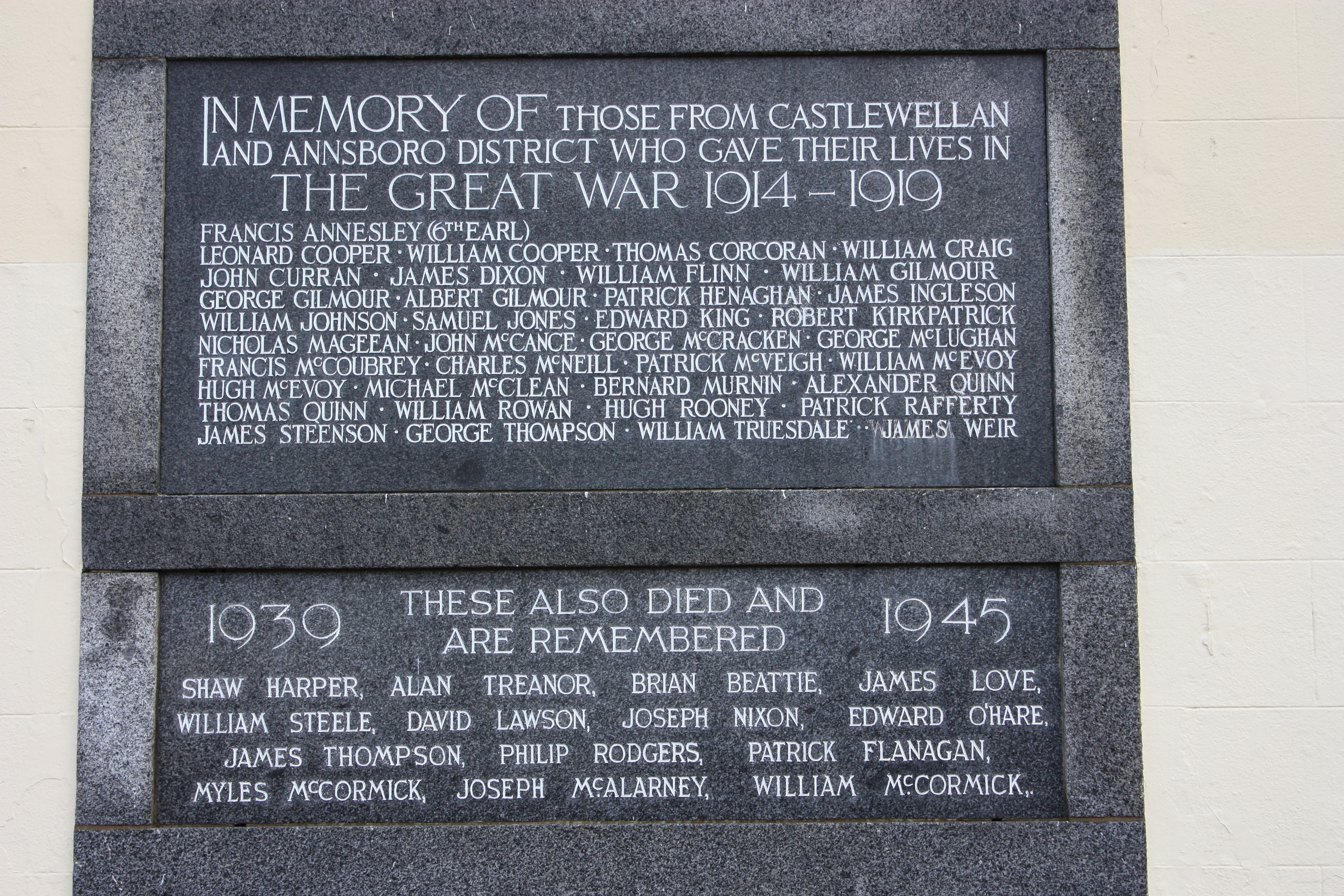 Old Market House (library), Upper Square, Castlewellan, County Down, Northern Ireland, December 2009